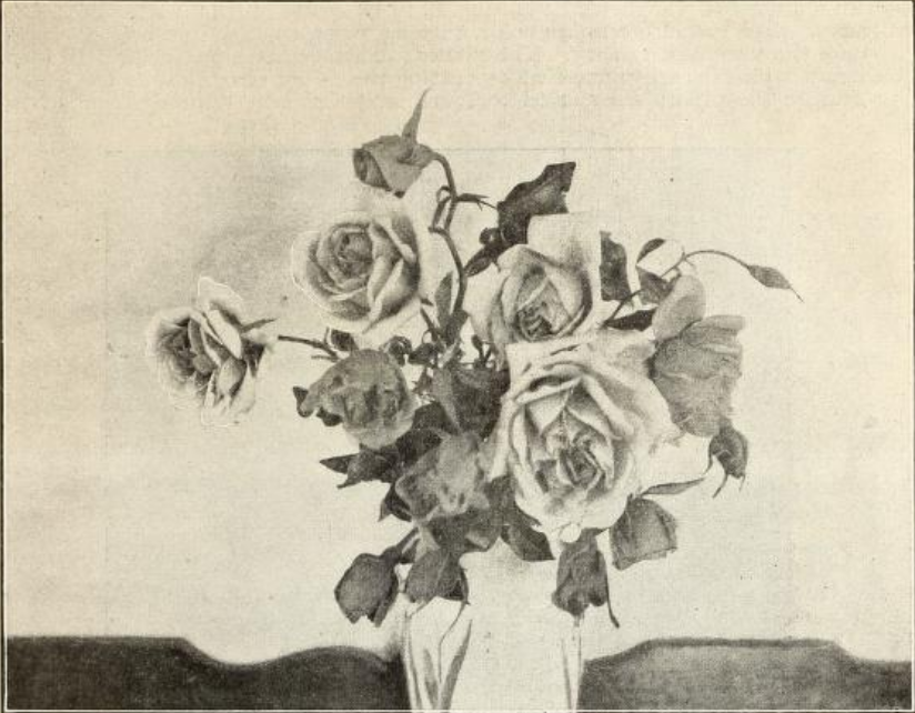 "Mrs. Shepherd's Rose 'Oriole'" from her catalog, Mrs. Theodosia B. Shepherd's descriptive catalogue of flowers : plants, bulbs, seeds cacti etc, by Theodosia B. Shepherd Company; Henry G. Gilbert Nursery and Seed Trade Catalog Collection. Publisher Ventura-by-the-Sea, Calif. : Theodosia B. Shepherd Co. Publication date 1908, p. 9